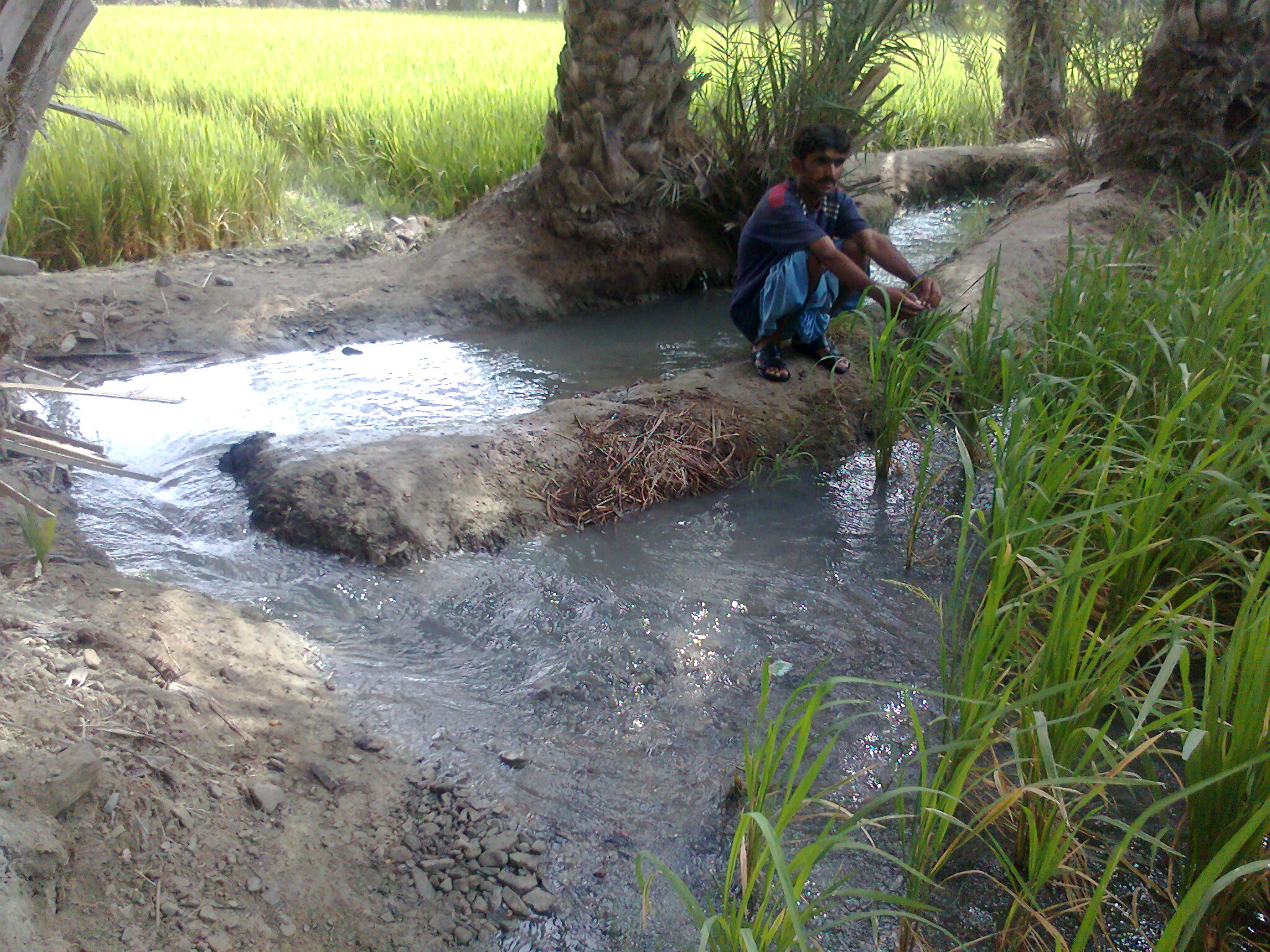 watering the crop, Tejaban